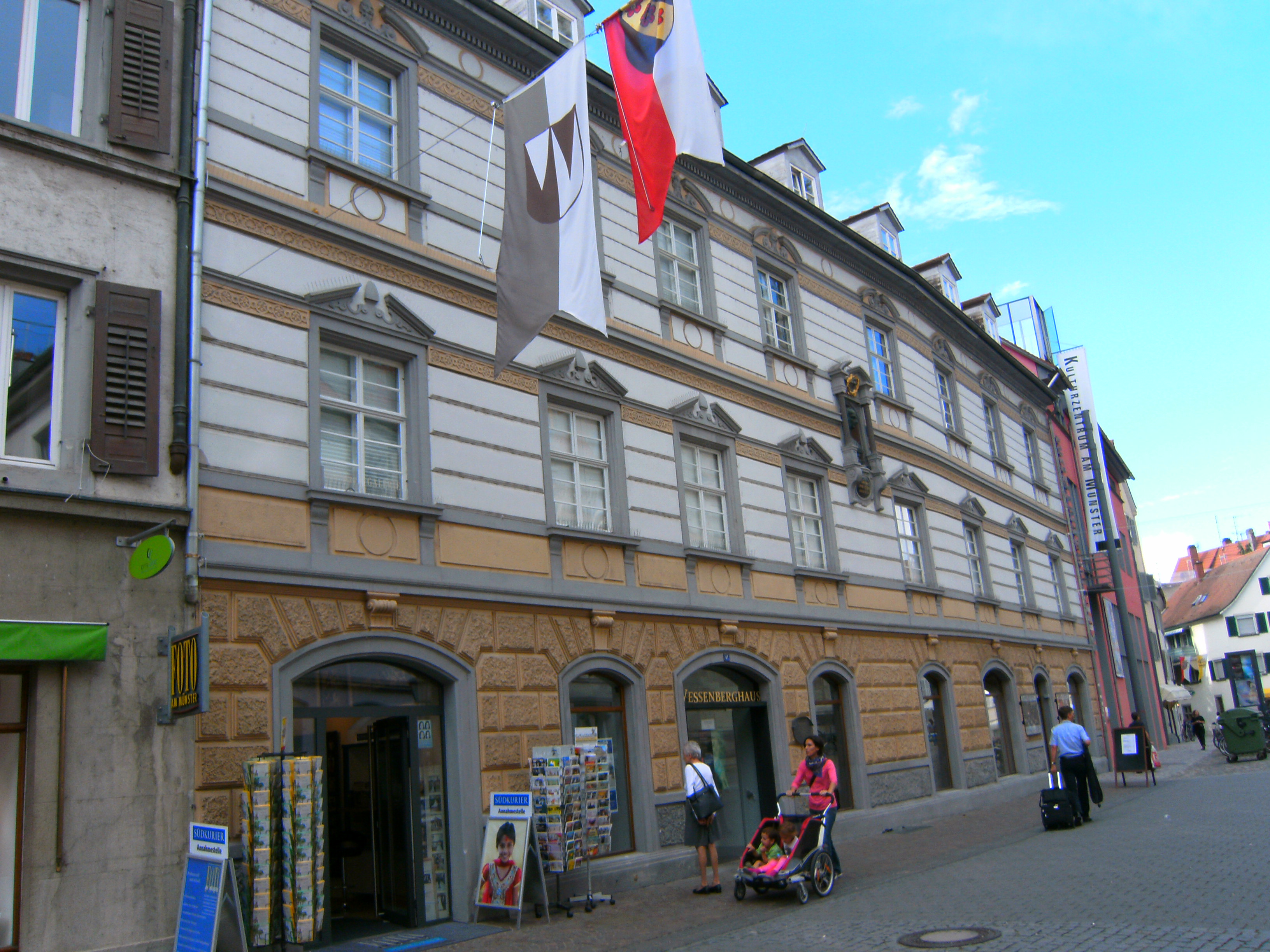 Konstanz, Germany, Wessenbergstraße 41: Wessenberghaus (house of Wessenberg).